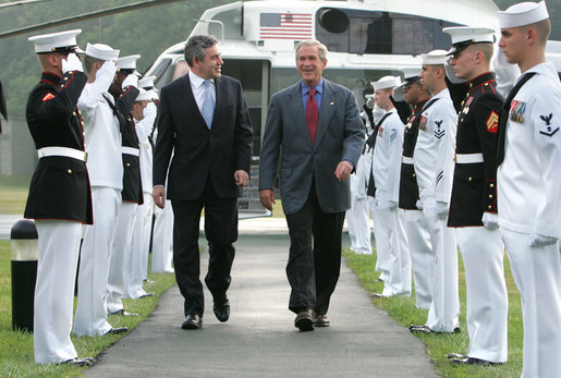 President George W. Bush and Prime Minister Gordon Brown of the United Kingdom, walk past an honor guard, after the Prime Minister's arrival at Camp David in Thurmont, Maryland.